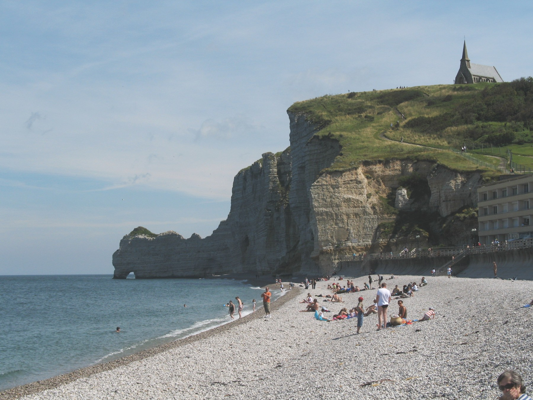 Beach & cliffs at Etretat, waiting "the wave".Etretat, Seine-Maritime, Haute Normandie, France, February 2011.